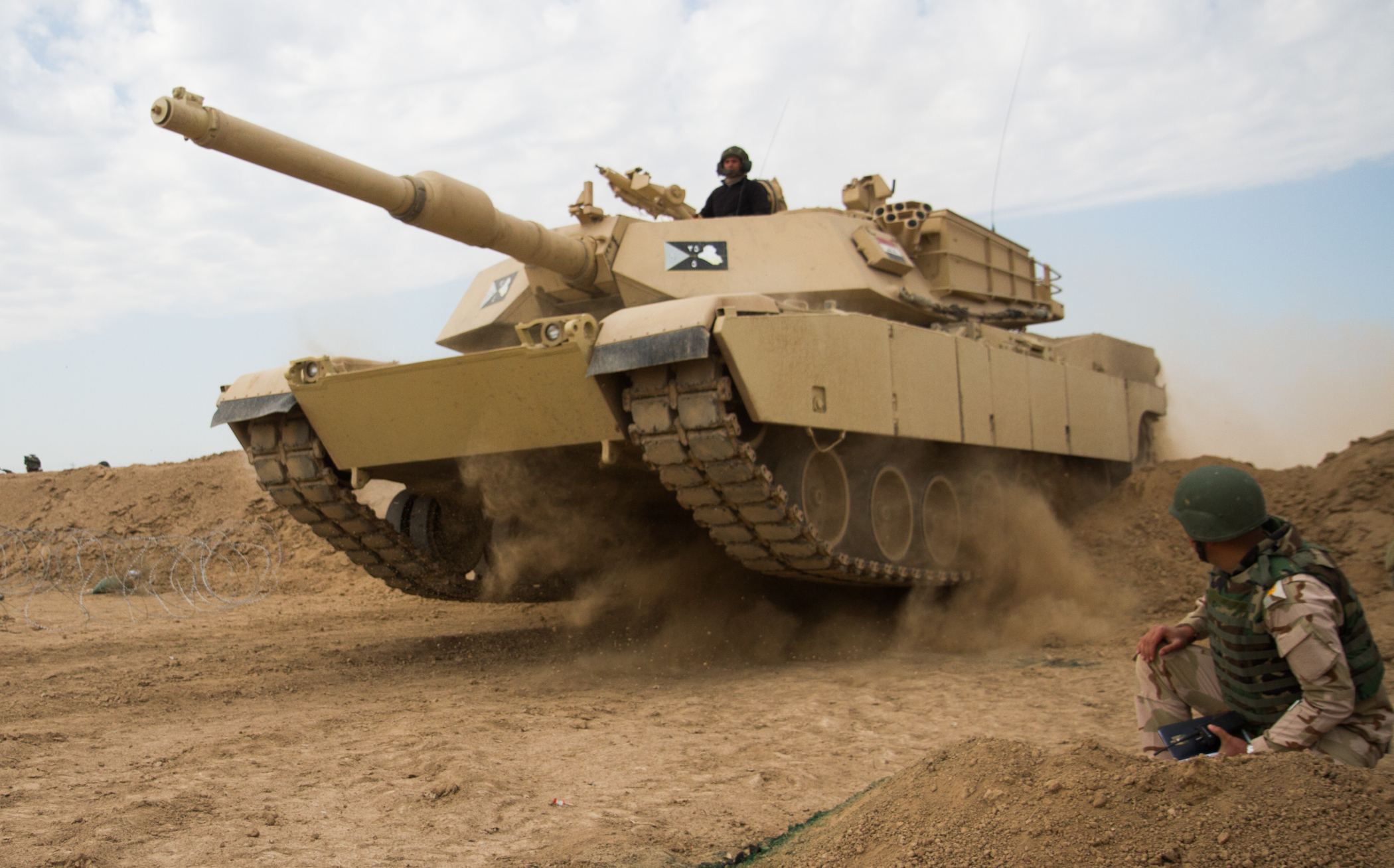 An Iraqi Army tank clears an obstacle while an Iraqi Army Soldier the 72nd Brigade, 15th Iraqi Army Division, looks on at Camp Taji, Iraq, Sunday March 22, 2015. Iraqi soldiers with the 72nd Brigade, 15th Iraqi Army Division participated in a combined training exercise that included tanks, helicopters, engineers and infantry at the conclusion of their three-week advanced training course with U.S. advisers. There are currently 4,800 Iraqi troops in training at four building partner capacity sites in Iraq, with 3,000 of those troops entering training three weeks ago. (U.S. Army photo by Sgt. Cody Quinn, CJTF-OIR Public Affairs )